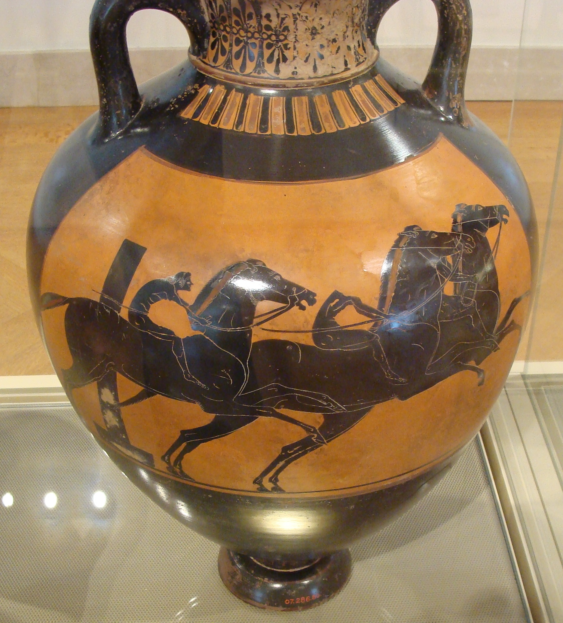 Metropolitan Museum of Art. Photo by Lucas Livingston, 13 April 2013.